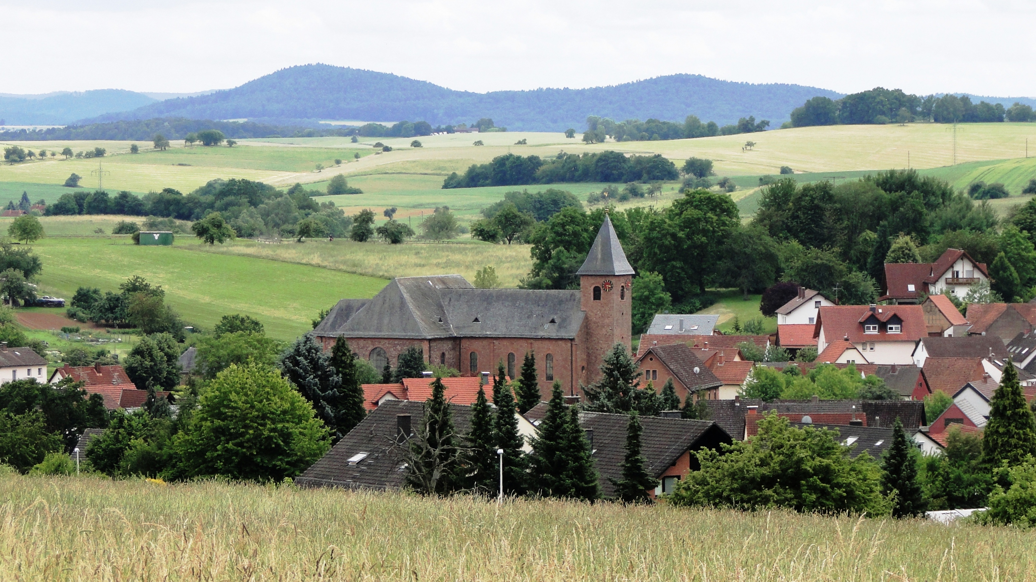 View of Geiselbach, County Aschaffenburg, Bavaria, from the north with the church of St. Maria Magdalena